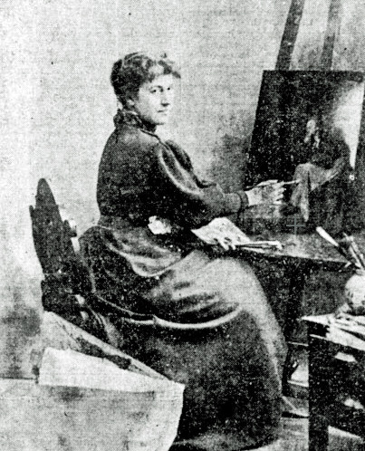 Clara Taggart MacChesney from San Francisco Call, Volume 87, Number 23, 23 December 1899